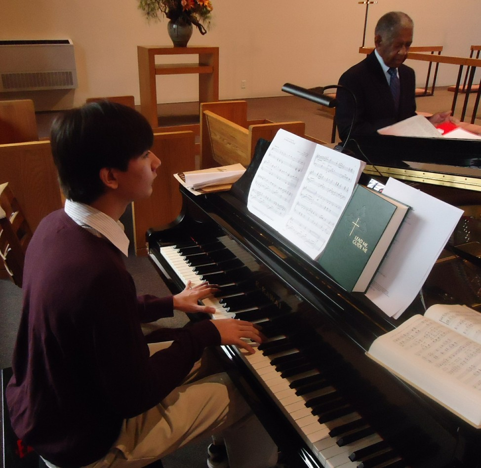 Memorial service for Capitola Dickerson (1913-2012) at St. John's church in Summit, New Jersey, on September 22, 2012 (correct date). Student Samuel J. Sulcer performing at the piano while singer Bill Robinson is in the background.